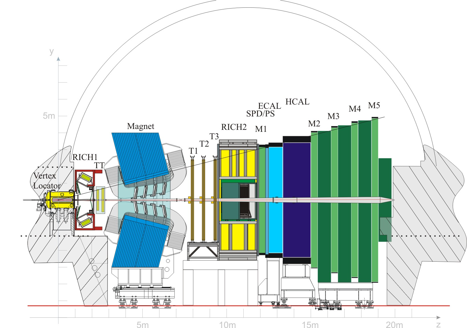 LHCb detector view among the bending plane